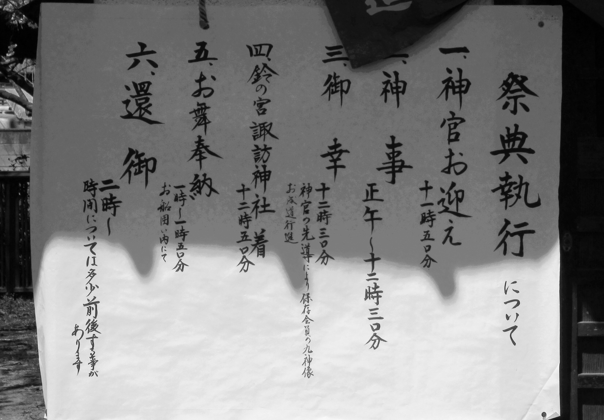 Tenzushi-mai dance festival schedule, April 8, 2012